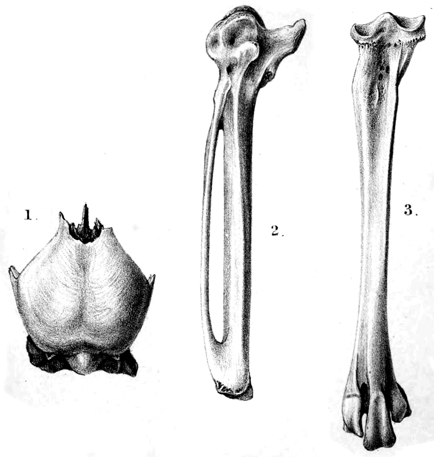 Skull and limb fossils of Alopochen sirabensis.